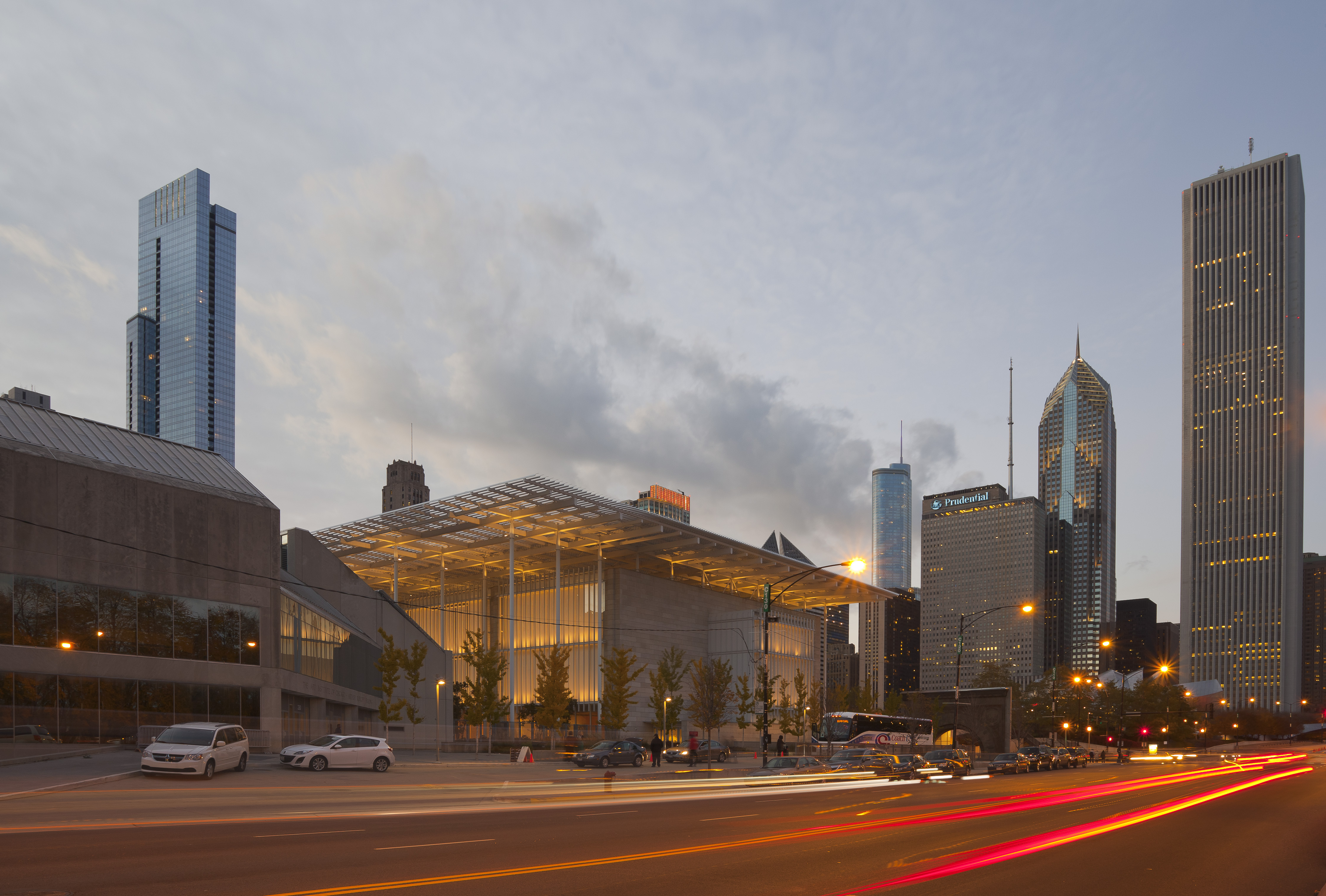 Art Institute of Chicago, Chicago, Illinois, USA